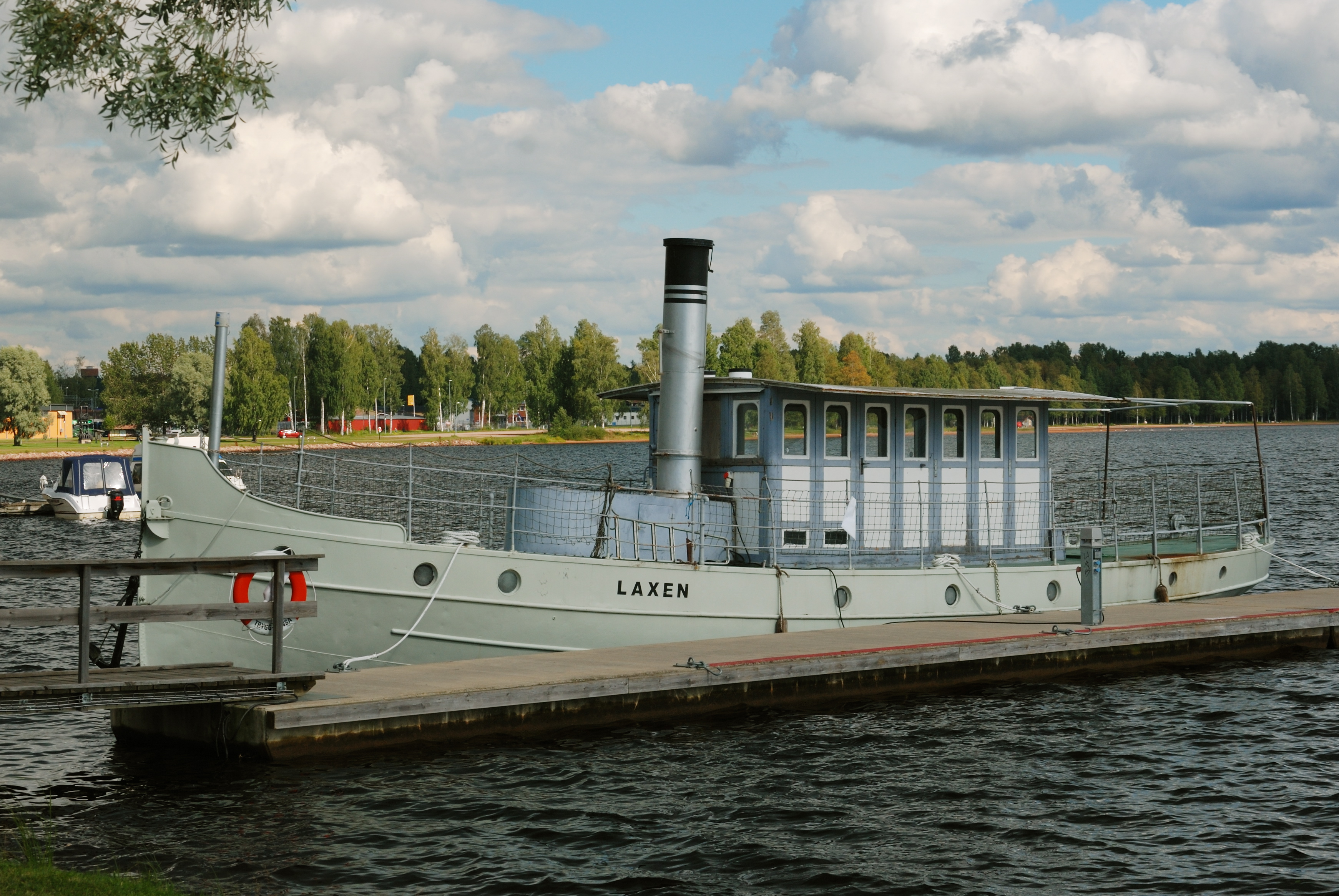 S/S Laxen in Mora, August 2011.